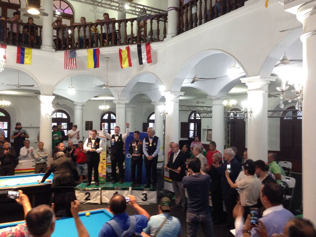 see file name